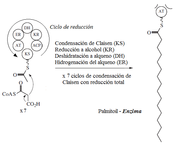 Schematic representation of a Fatty acid Synthase (FAS)